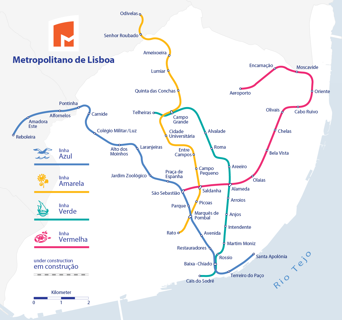 Metro Lisboa Route Map